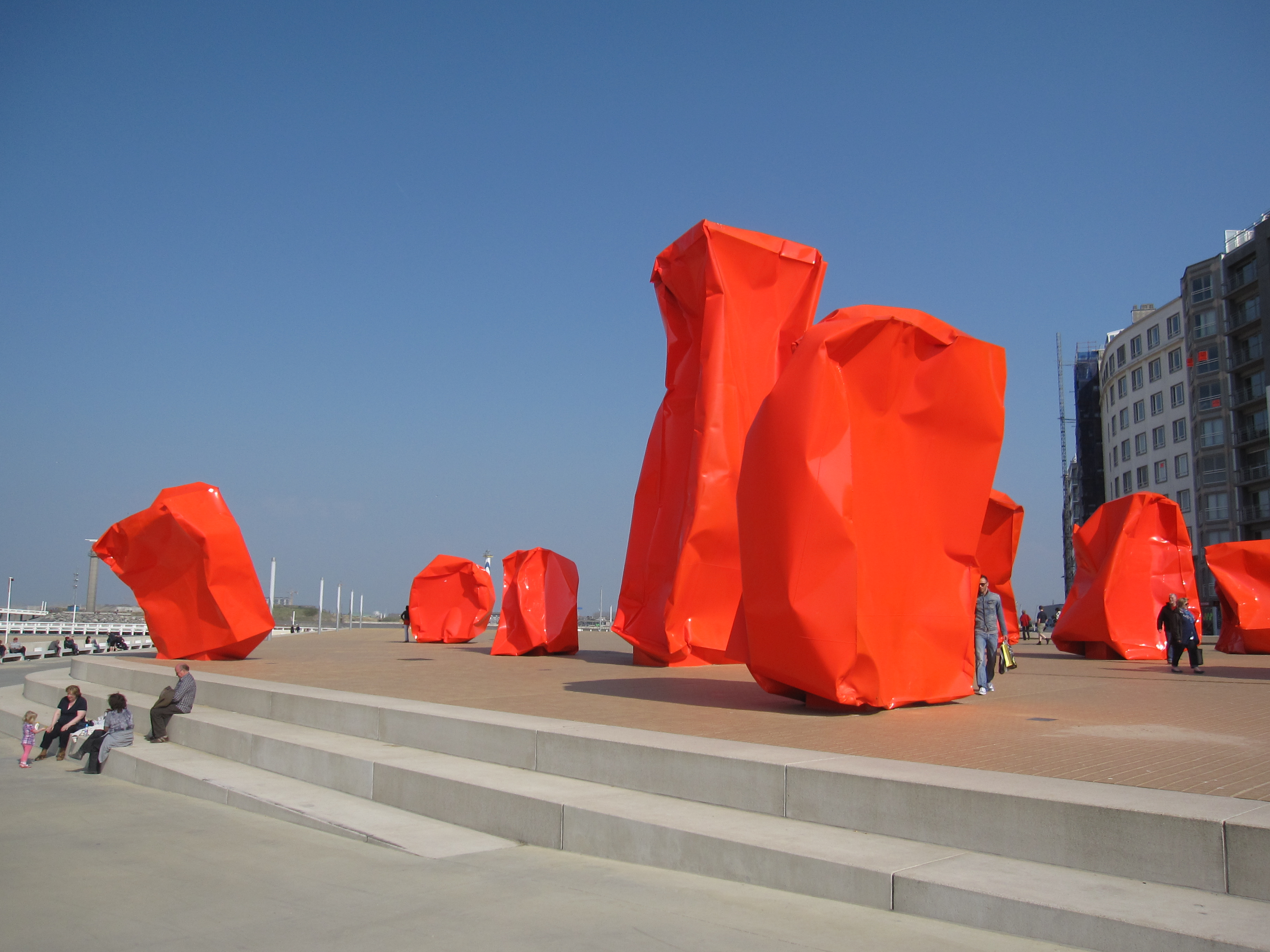 From a distance I thought these orange objects on the Zeeheldenplein in Ostende were covered up monuments, but upon closer inspection I found out they were metal! This turns out to be a public art installation, known as "Rock Strangers", created by the Belgian artist Arne Quinze.